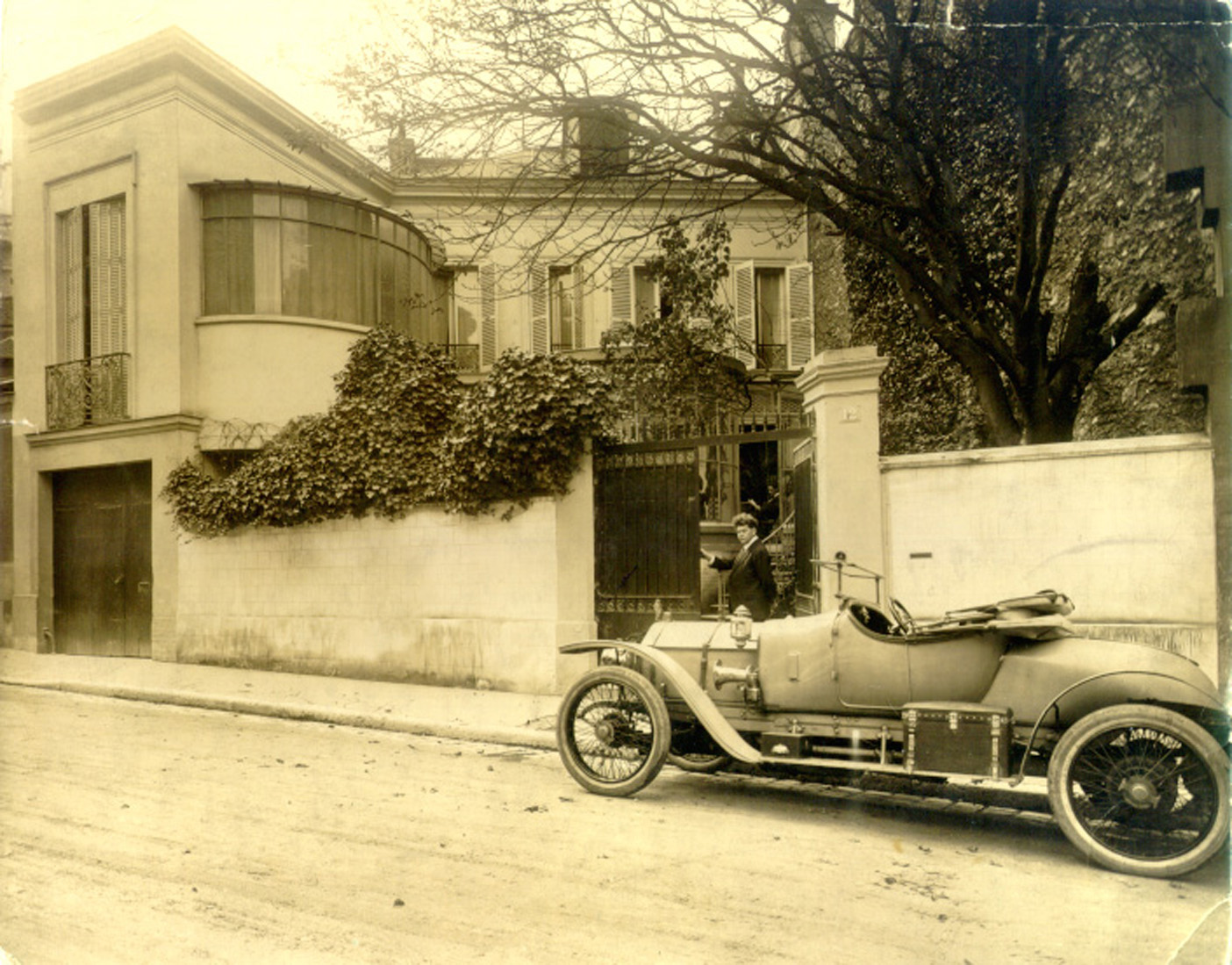 Charles W. Clark in front of his house in Paris in 1912